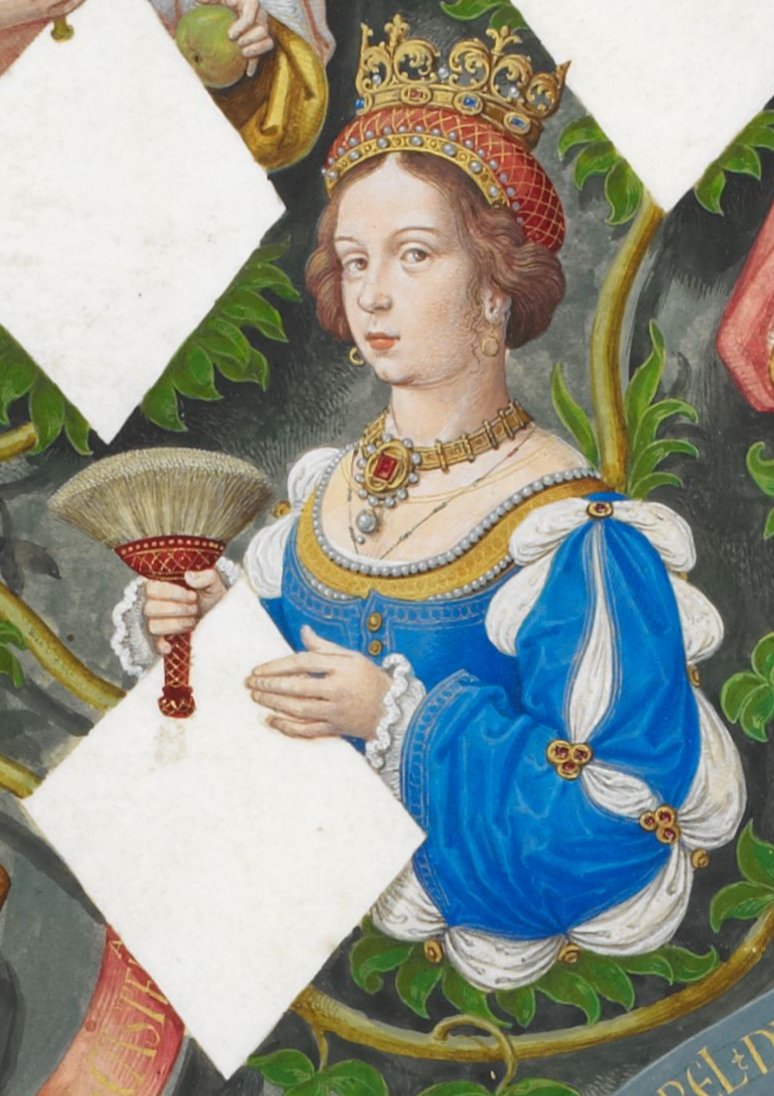 Joan of Portugal (1439-1475), Queen consort of Castile due to her marriage to Henry IV of Castile.